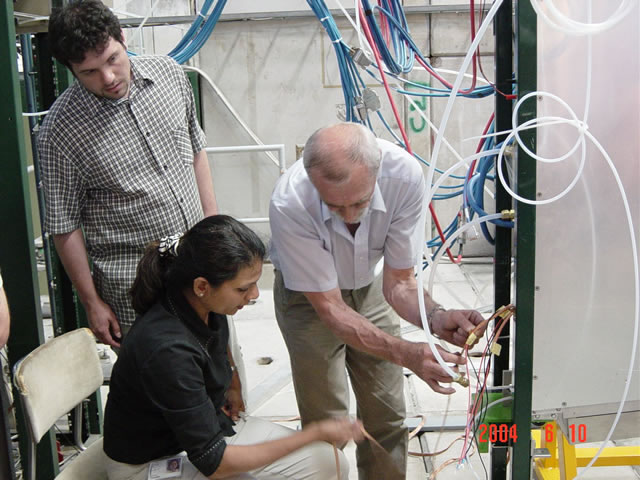 Archana is doing Beam Test in 2004